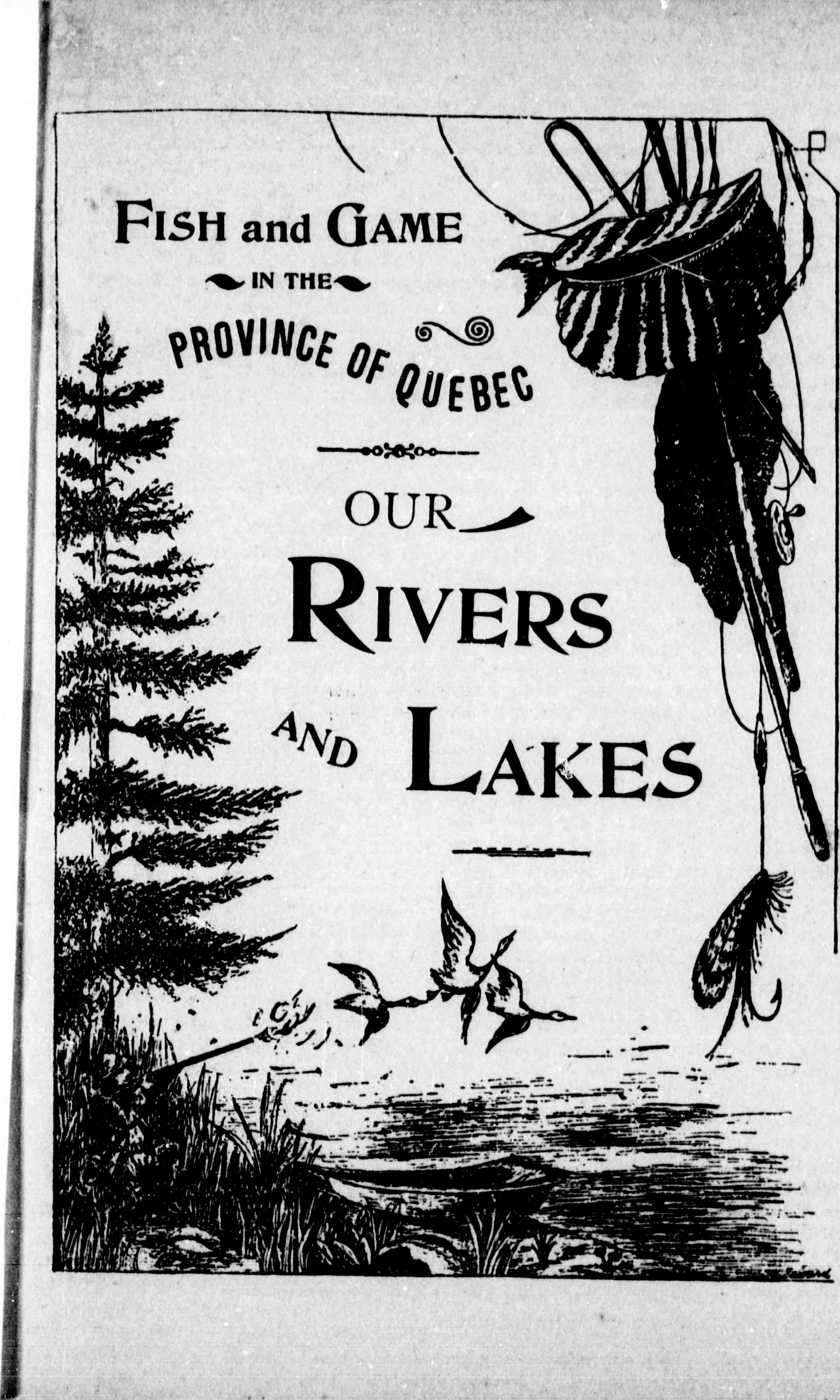 Title: Our rivers and lakes (microform) : fish and game Year: 1895 (1890s) Authors: Rouillard, Eugène, 1851-1926 Subjects: Fishing; Hunting; Hunting and fishing clubs; Pêche sportive; Chasse; Clubs de chasse et pêche Publisher: (Quebec? : s. n. ) Text Appearing Before Image: ' Text Appearing After Image: '